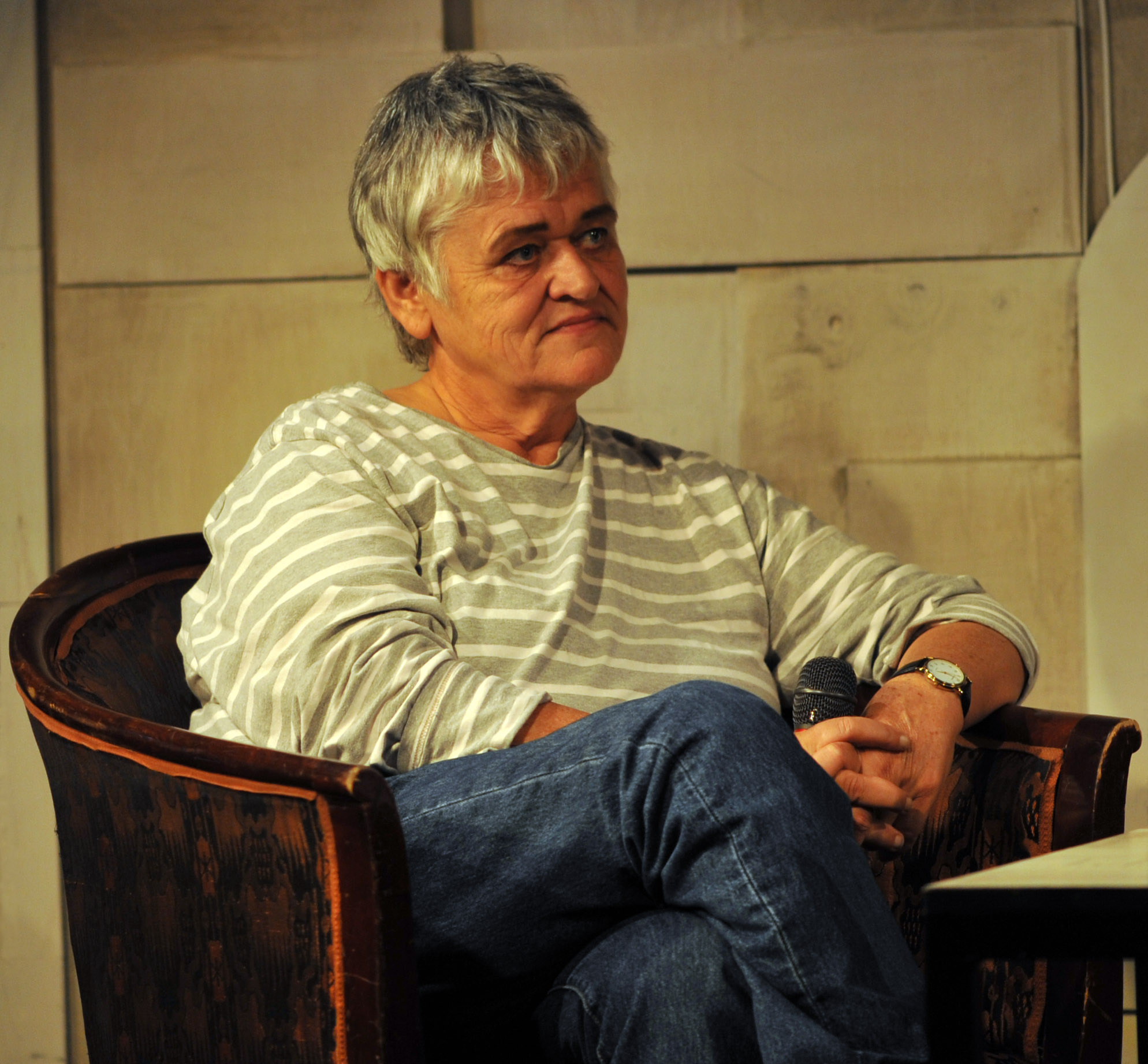 Pirkko Saisio, Finnish writer and director, Finnish National Theatre, Helsinki, September 2011.